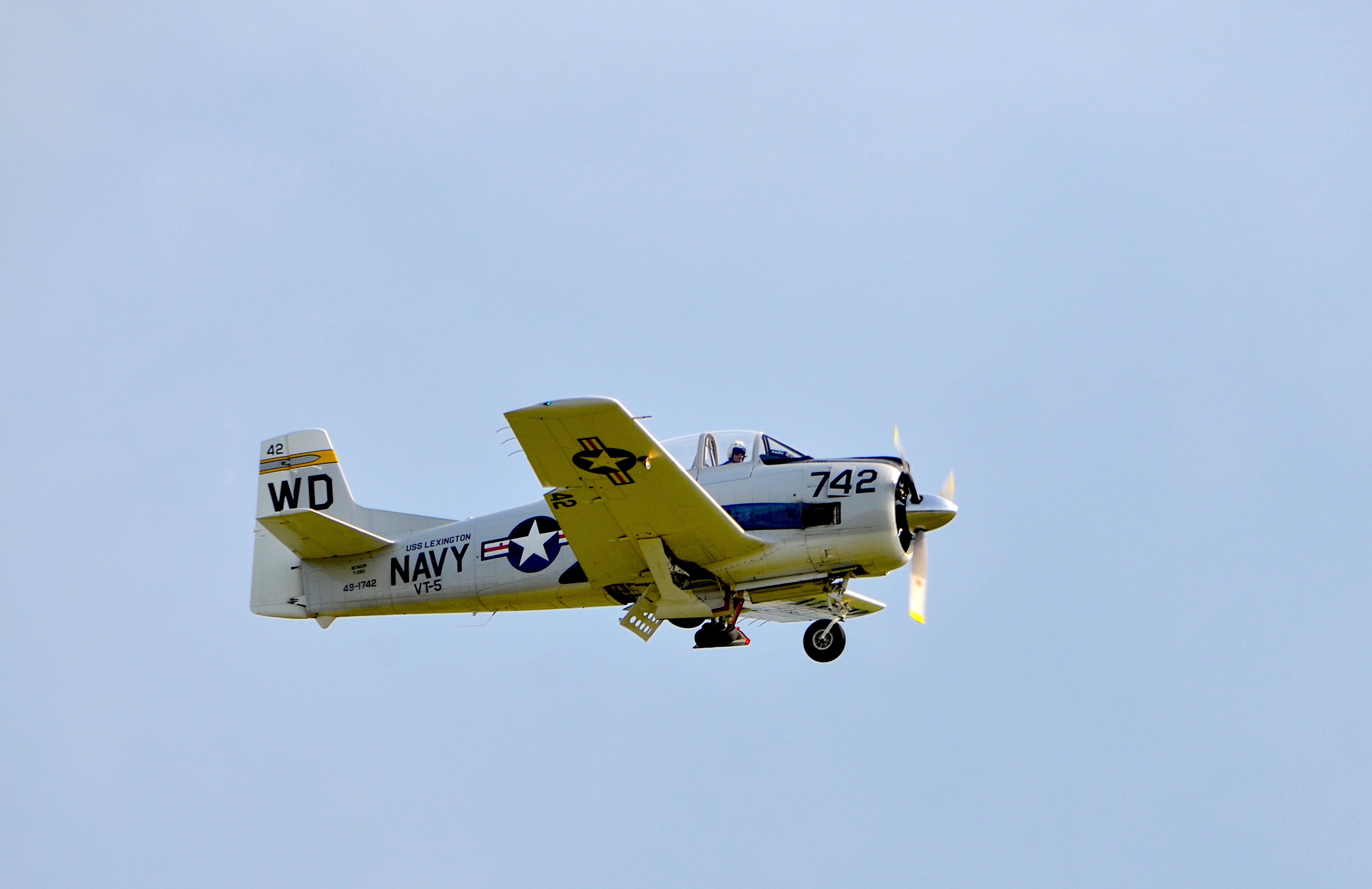 North American T-28D Trojan at Degerfeld airfield (2017)